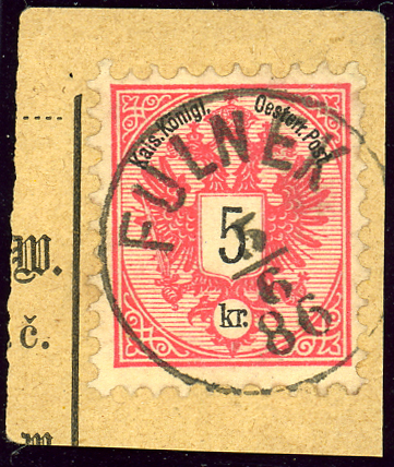 Austrian KK 5 kreuzer stamp on card fragment, cancelled FULNEK in 1886, Moravia